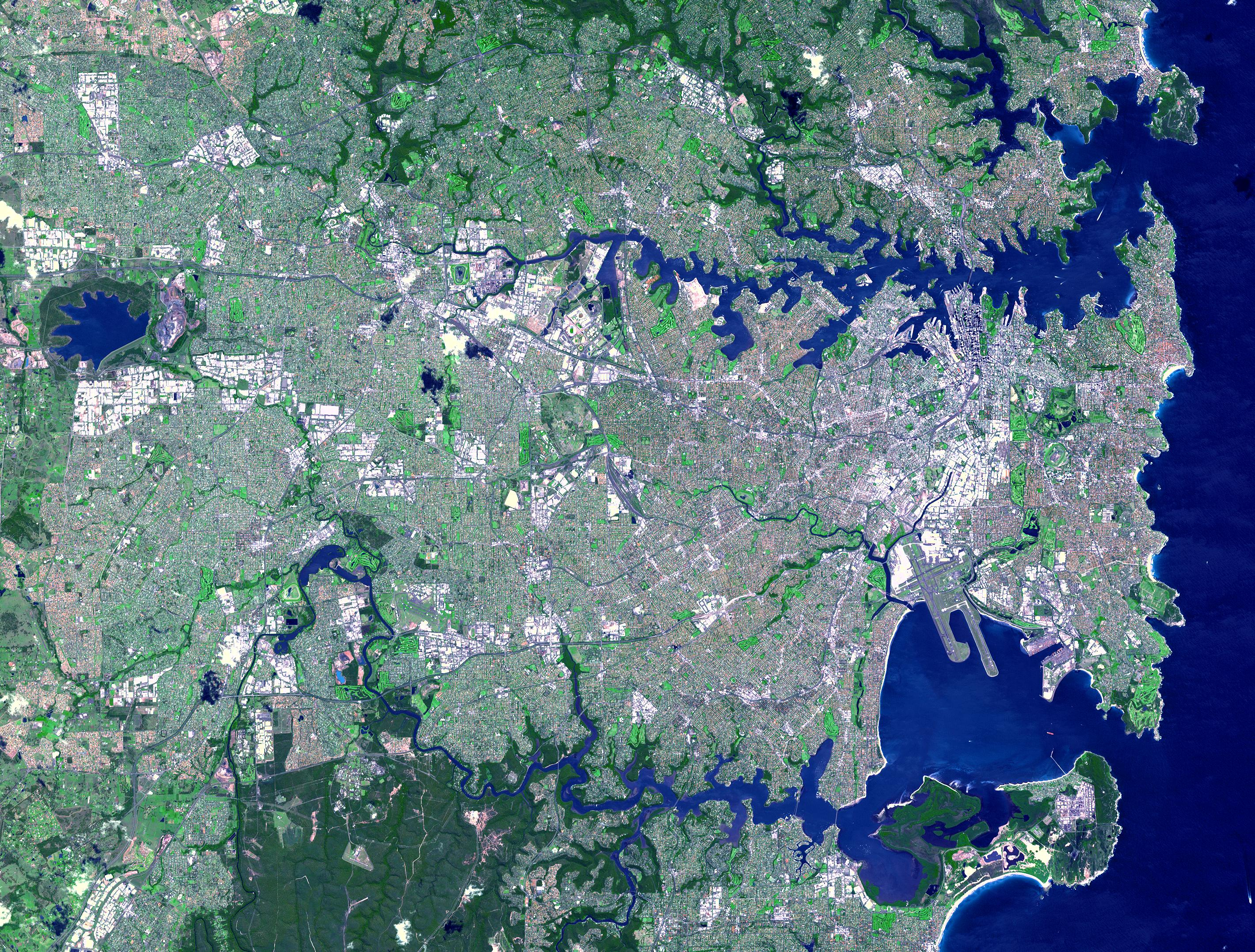 Satellite view of Sydney metropolitan area